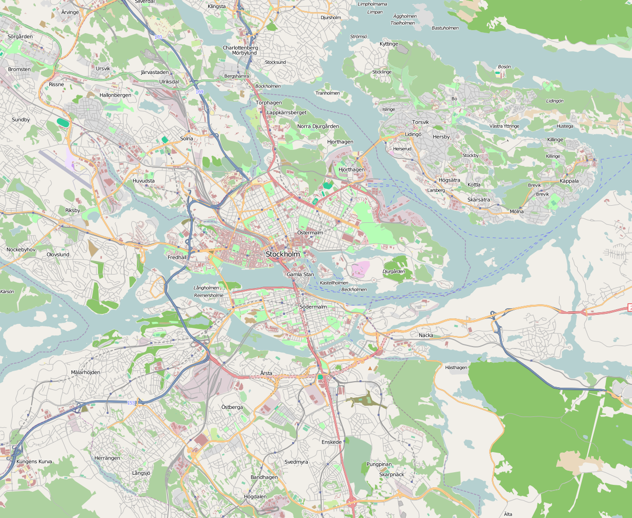 The road network of Stockholm as it was in the Openstreetmap database at the end of 2008